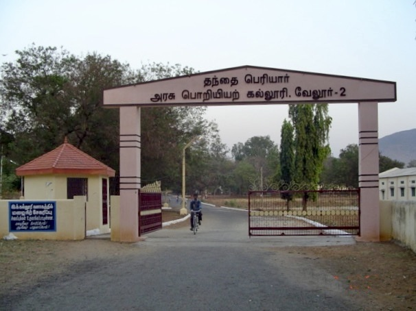 Thanthai Periyar Government Institute of Technology,Vellore